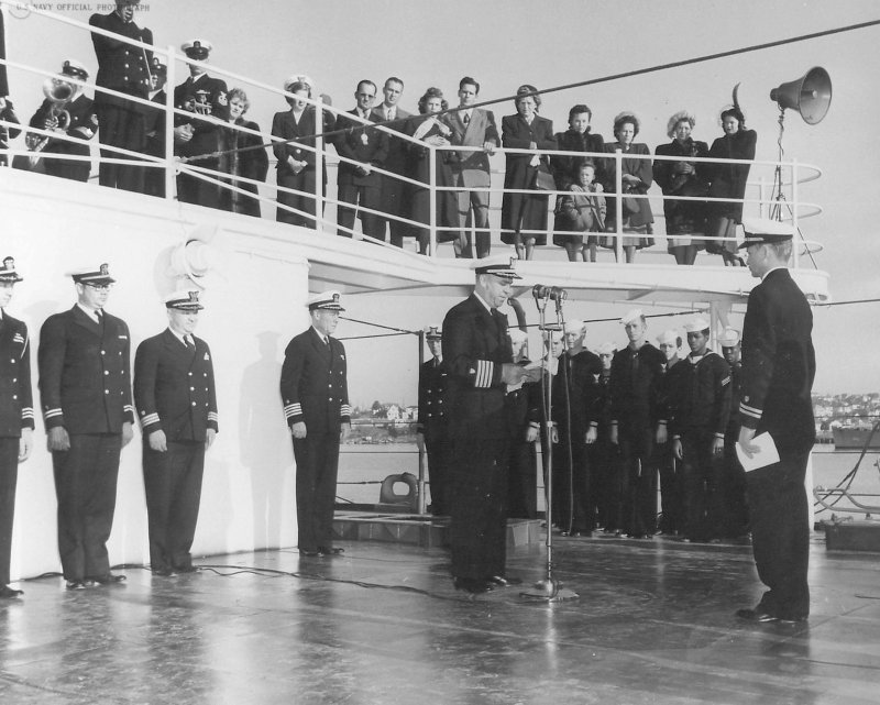 The commissioning ceremony for United States Coast Guard Cutter USCGC Castle Rock (WAVP-383)) at Mare Island Naval Shipyard, Vallejo, California